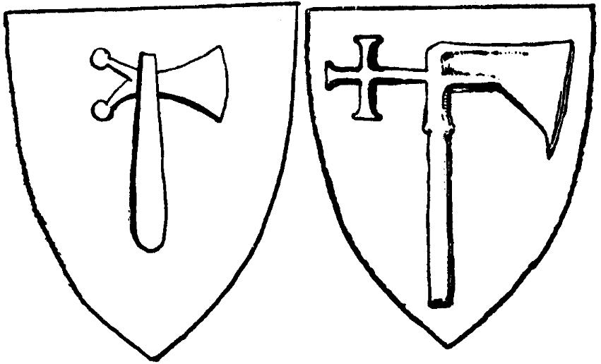 Coat of arms Pałuka in two variants